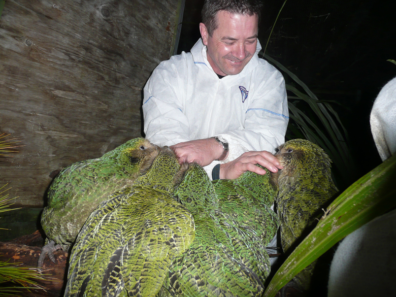 Photo: Alastair Morrison, 2008.